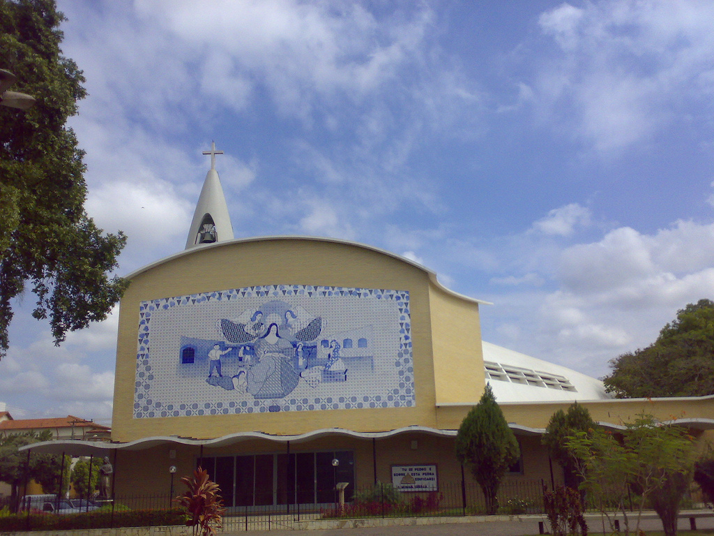 Saint Rita of Cascia church in Cataguases, Minas Gerais, Brazil.